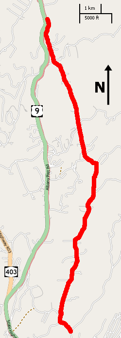 Map showing route of Old Albany Post Road in Philipstown, NY, USA